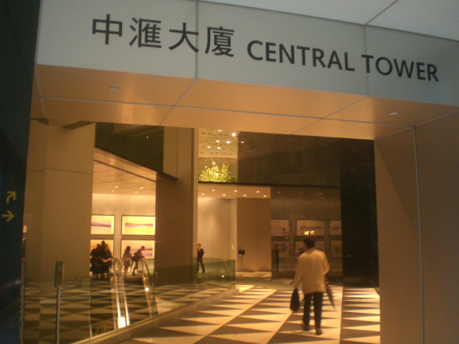 中環中匯大廈zh:出入口